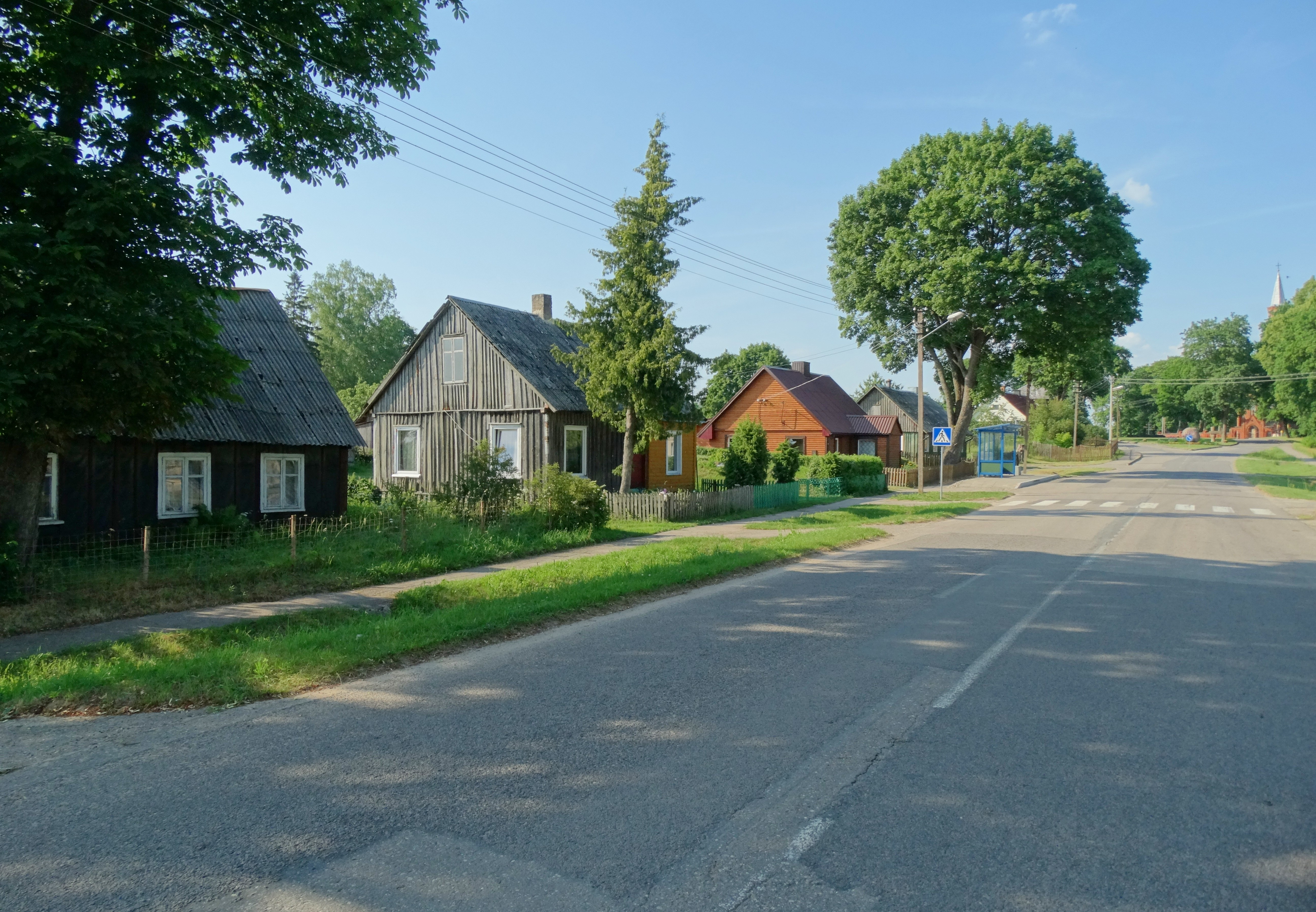 Gadūnavas, Telšiai district, Lithuania